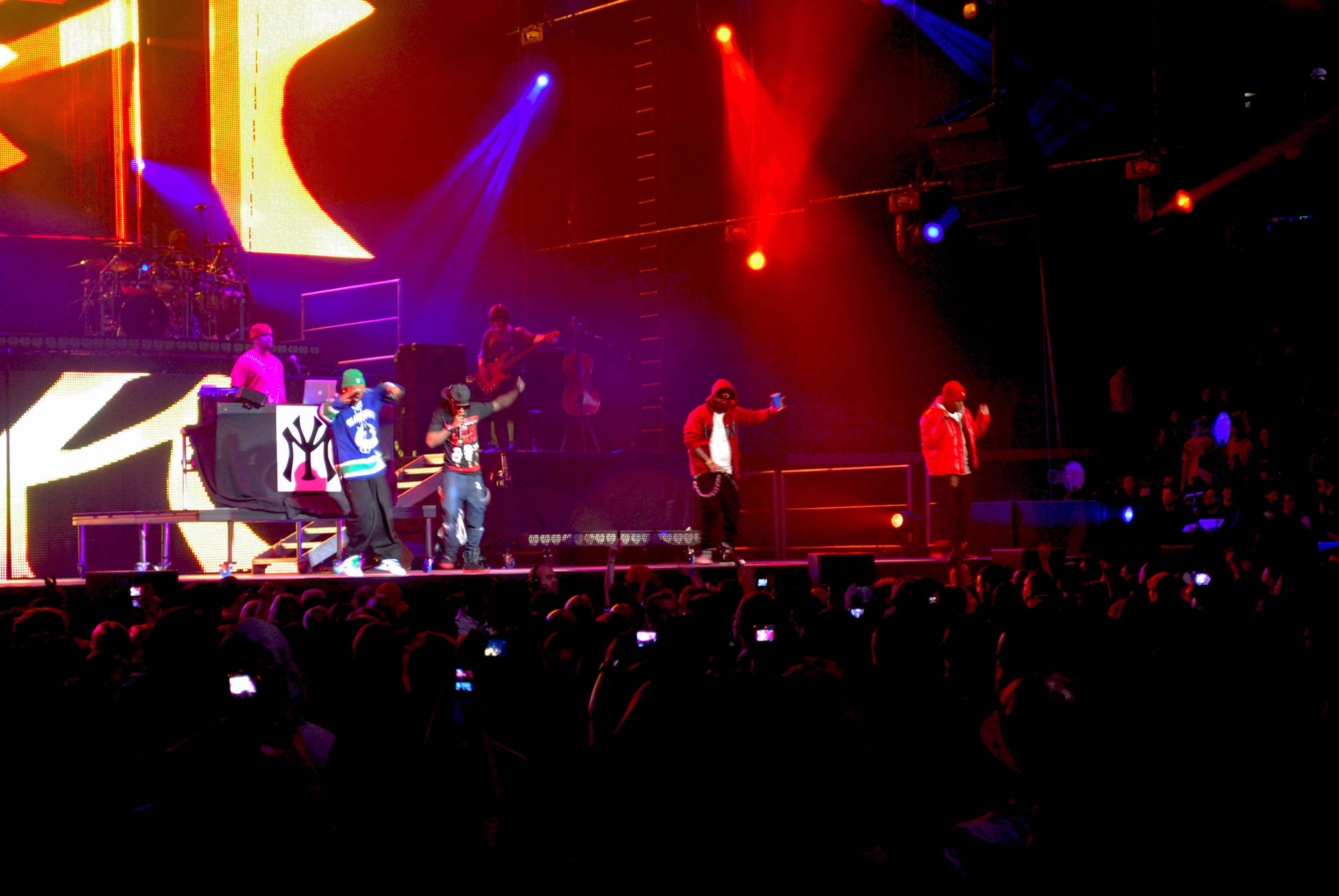 Mack Maine, Lil Wayne, Jae Millz and Gudda Gudda performing at General Motors Place concert in Vancouver.